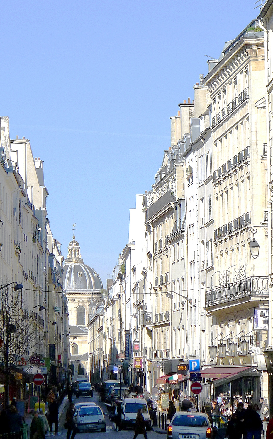 Mazarine street- Paris